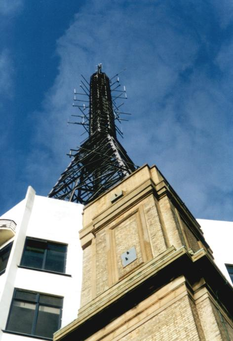 The transmission mast above Alexandra Palace, where BBC Television began broadcasting from its studios there in 1936. Uploaded to illustrate BBC One. Taken by me, Paul Hayes, in September 2001.